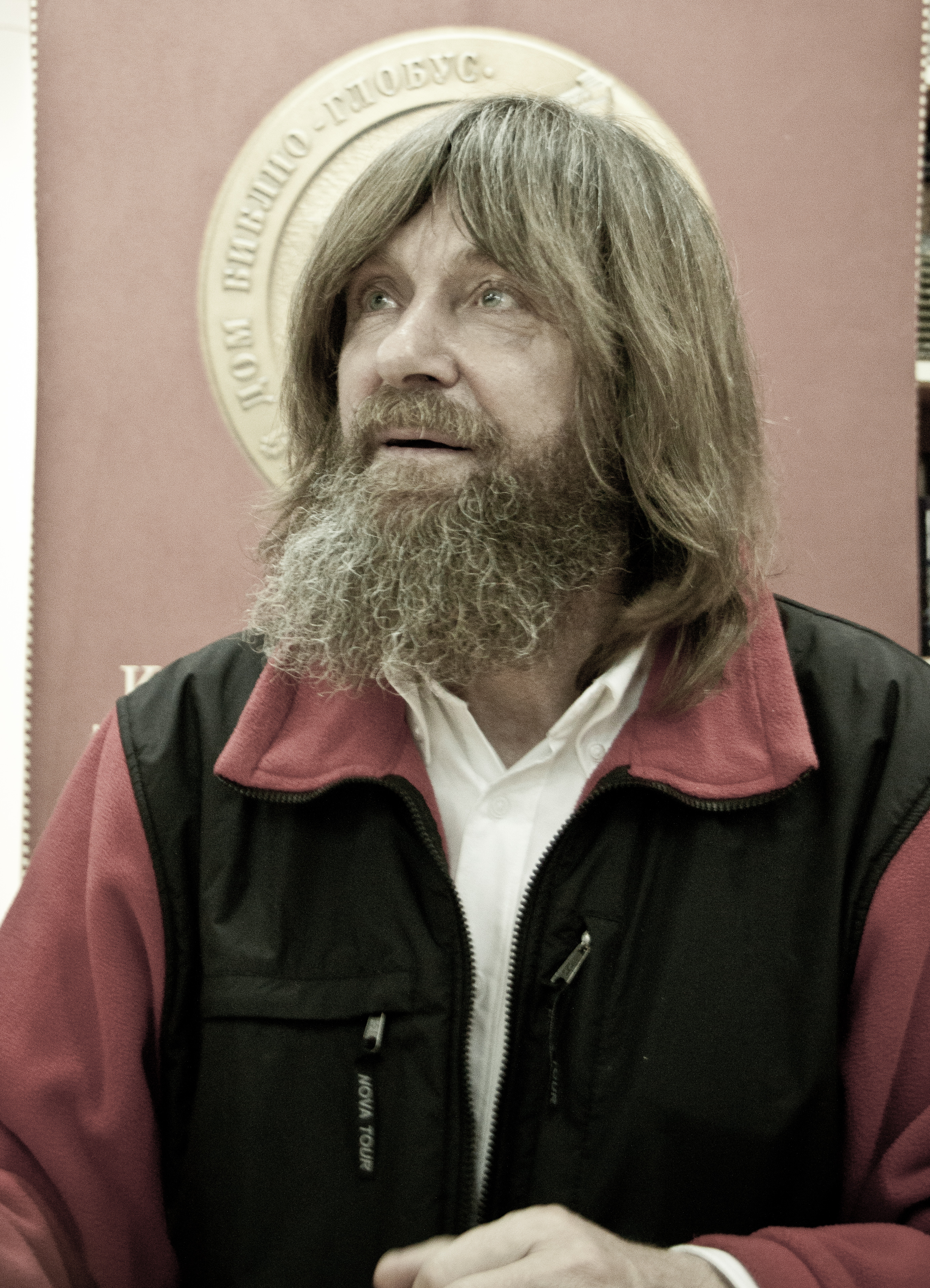 Russian traveler Fyodor Konyukhov speaking with visitors to the Biblio-Globus bookstore in Moscow